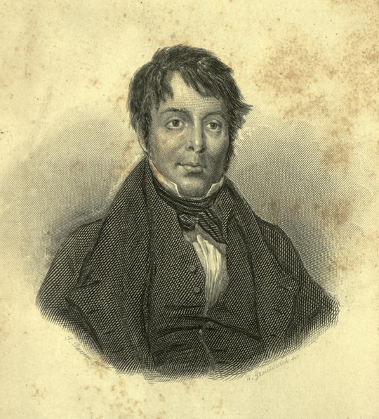 This is an illustration of the 18th century dancer and comedian Joseph Grimaldi by George Cruikshank, taken from Dickens' Memoirs of Joseph Grimaldi 1838.